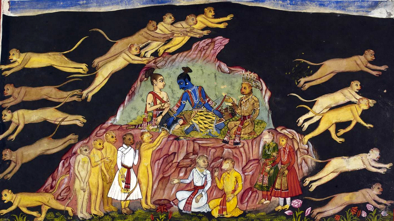 "Sugriva has been brought to his senses and has come with his court to Rama's cave on the Prasravana mountain. Rama, Laksmana and Sugriva are seated on a rocky eminence of pinky brown, with a jade background, with other monkeys below them. Sugriva divides his forces and sends them out to search the four quarters for Sita. He sends Hanuman and his nephew Angada to search the southern region. Convinced that the sagacious and mighty Hanuman will locate Sita, Rama gives him his ring as a token that Hanuman is his messenger. Around them monkeys spring forth to the other three quarters. This is the most dramatic of the paintings in this book; especially effective is the way the springing monkeys are painted against an almost black background. "